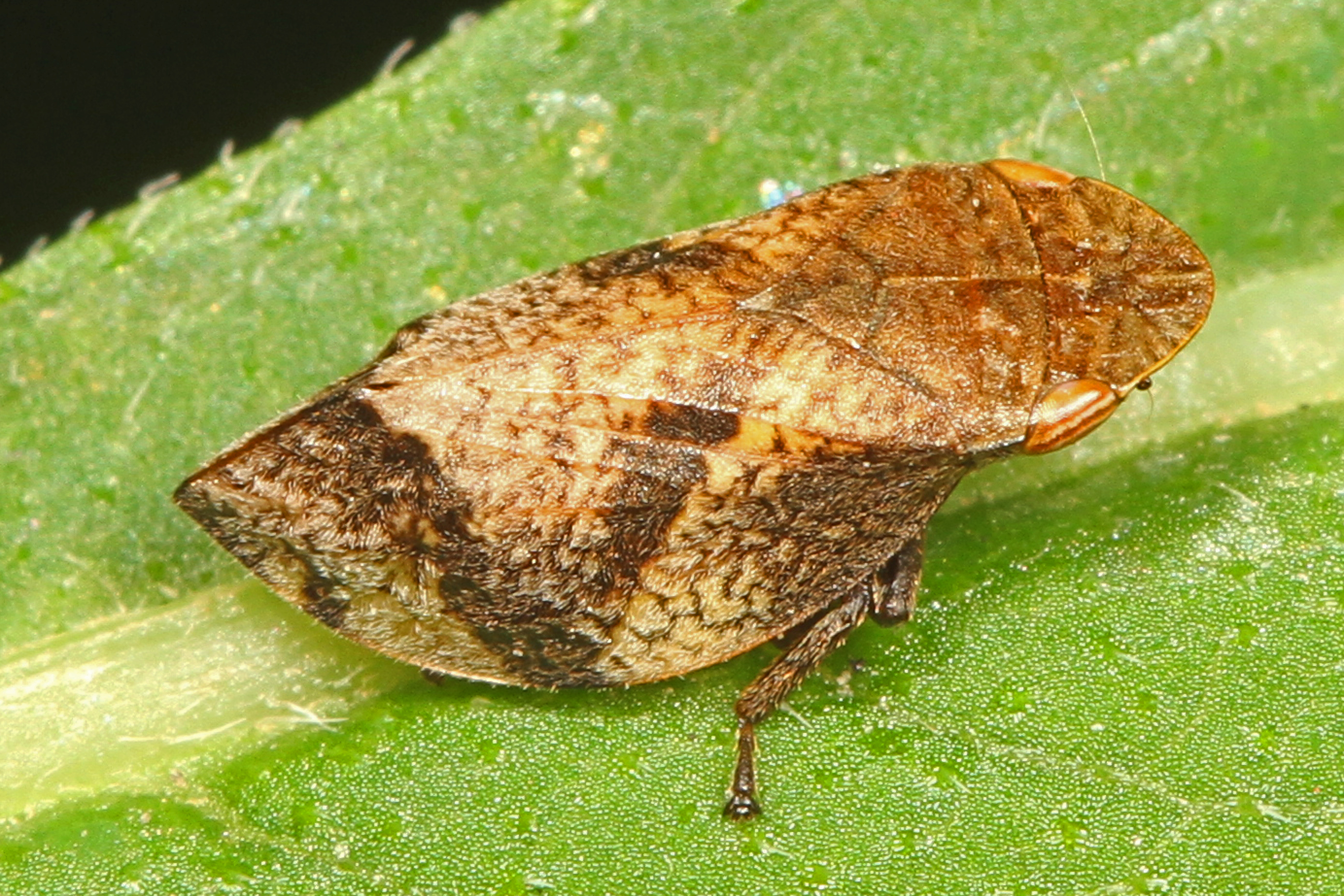 Diamondback Spittlebug - Lepyronia quadrangularis, McKee Beshers WMA, Poolesville, Maryland. Montgomery County, 7/20/2013